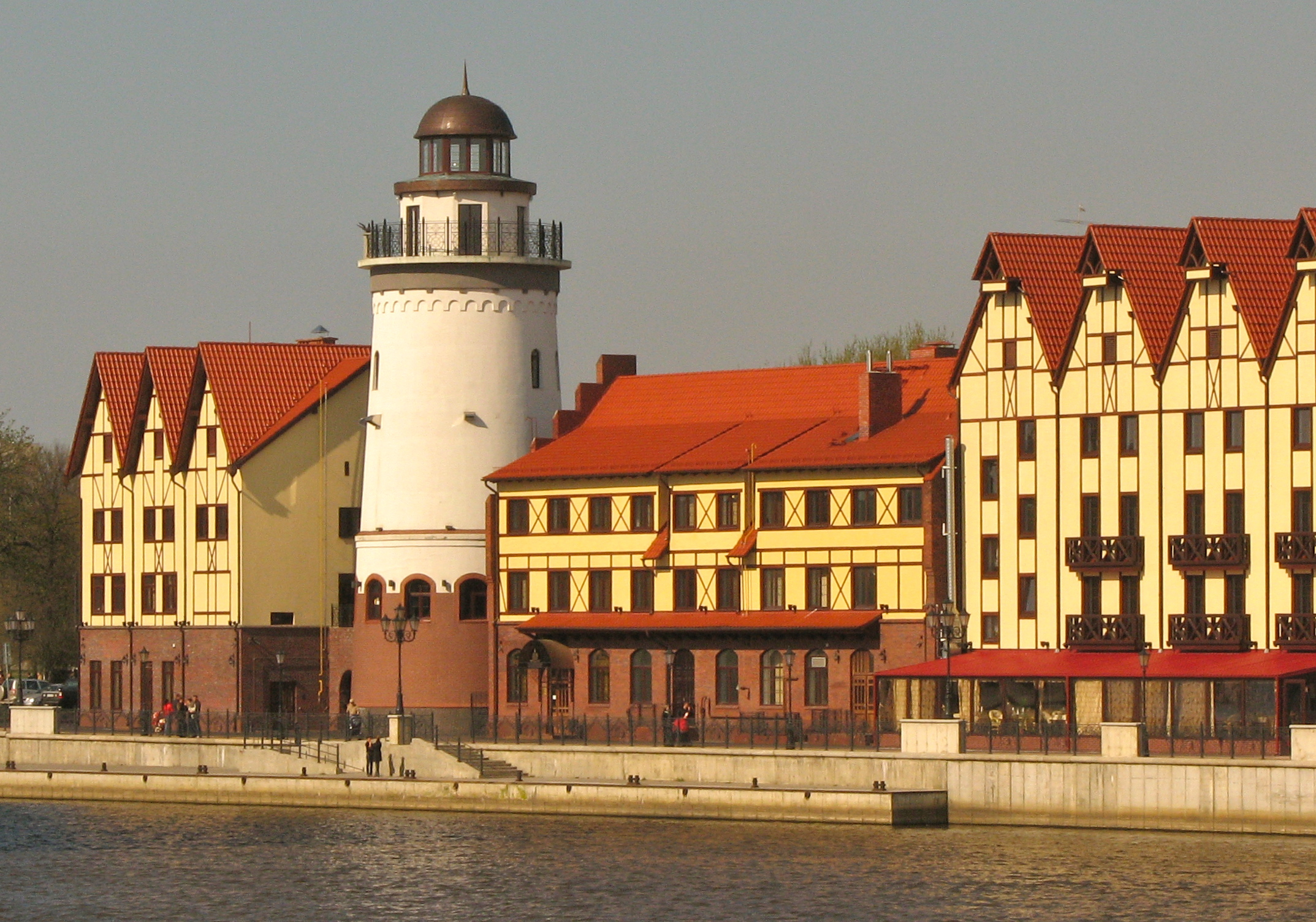 Part of the "Fish Village", a historicist development in Kaliningrad (Königsberg)